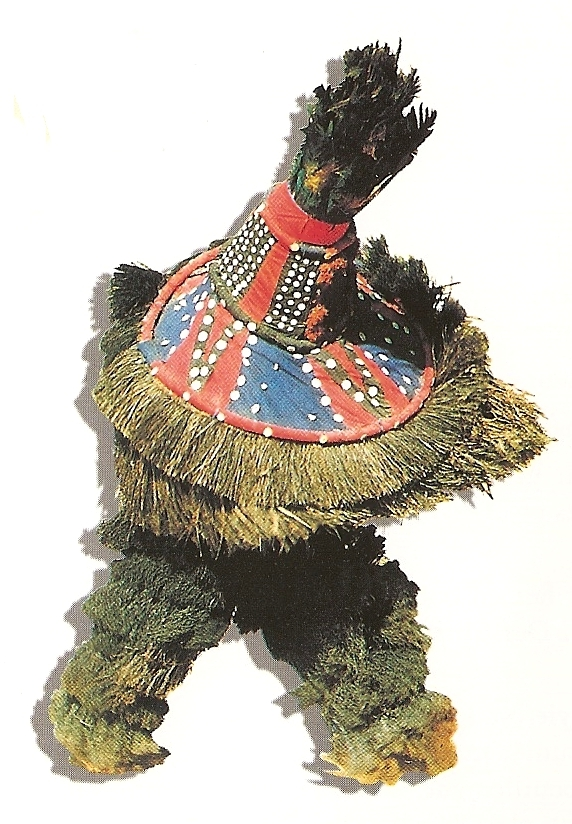 Bodi gabonese traditionnal mask from the Pove ethny